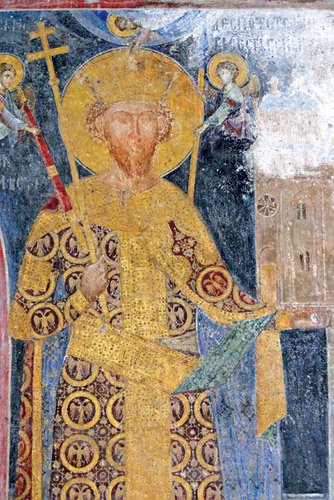 Fresco of Stefan Lazarević in Manasija monastery, near Despotovac, Serbia.